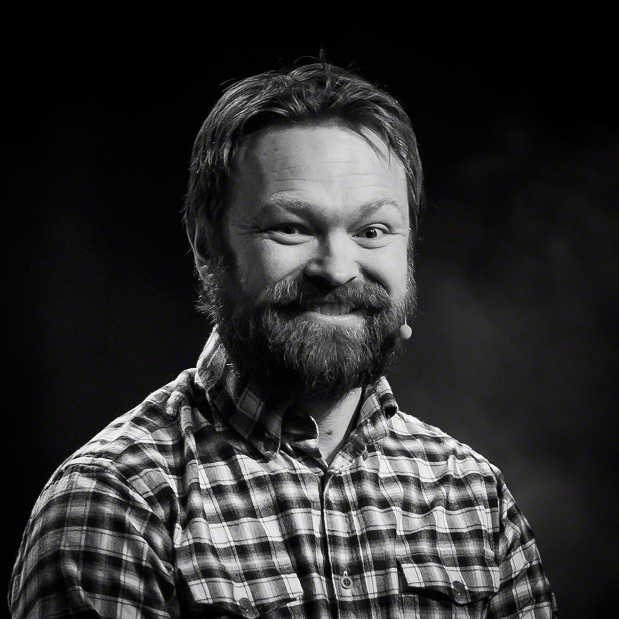 John Brungot performing at the Crap Comedy Festival in January 2016. The festival takes place at Parkteatret in Oslo.